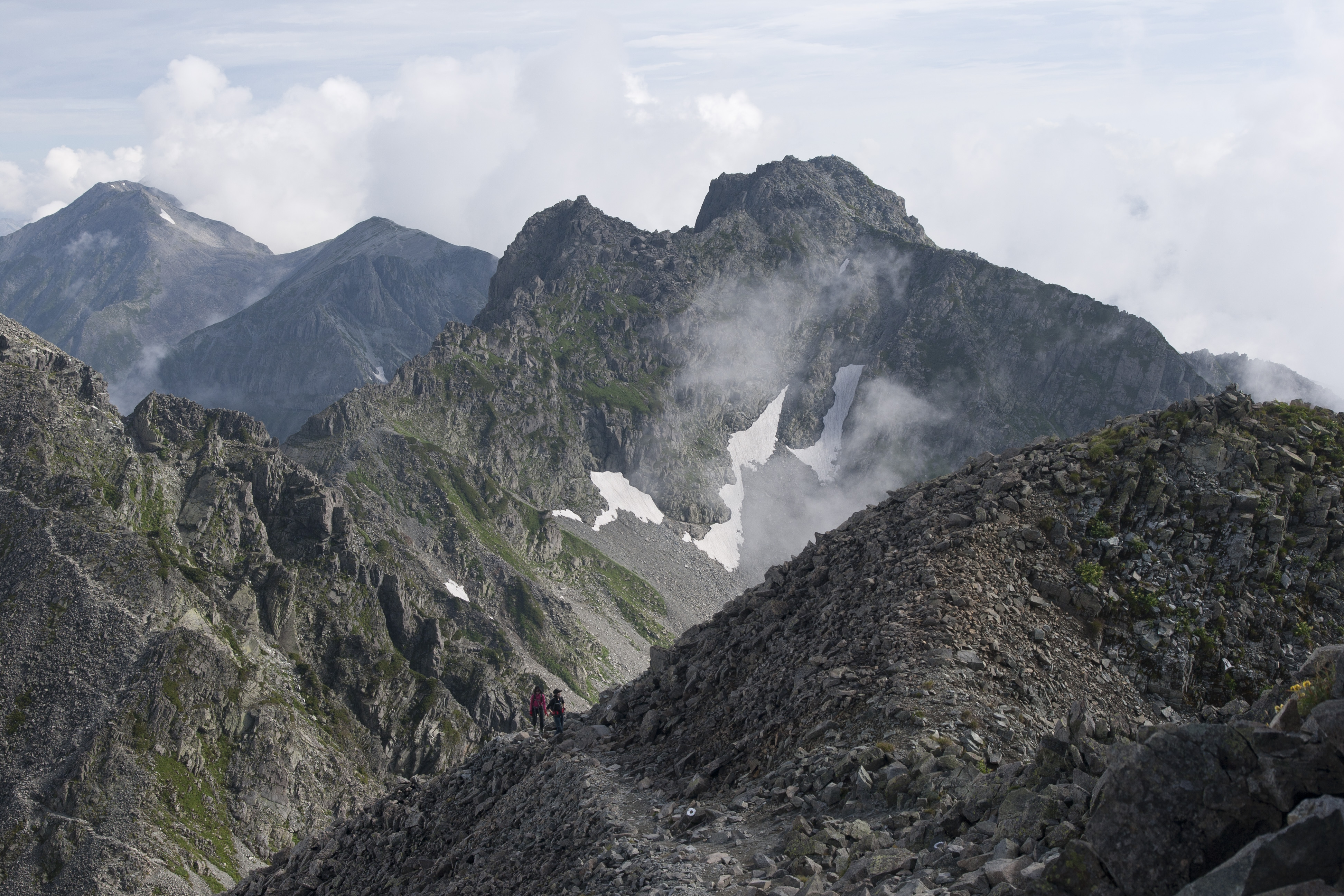 Mount Kitahotakadake(3106m), Hotaka Peaks, Hida Mountains, Japan.